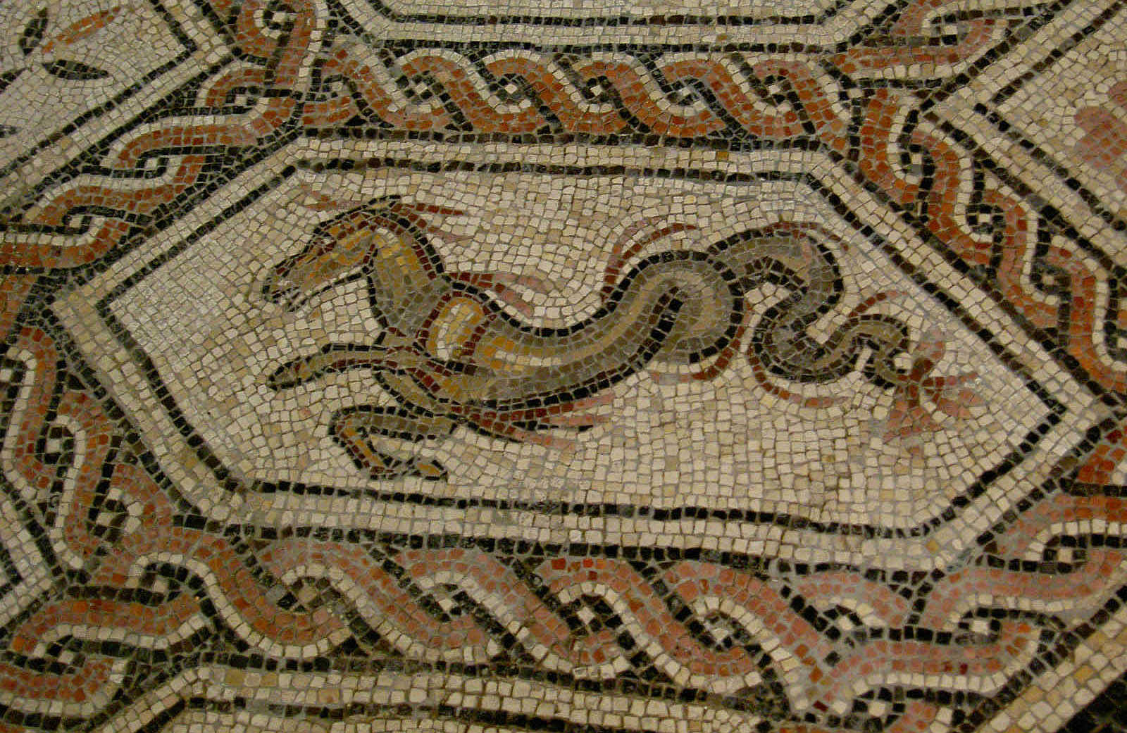 Roman artwork. Image shows a hippocampus.